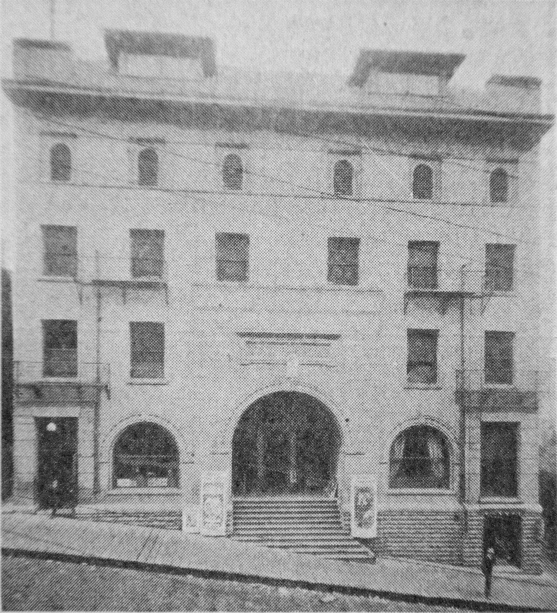 Grand Opera House, Seattle, Washington c. 1905. After a later fire, the building was converted to a multi-story parking lot.